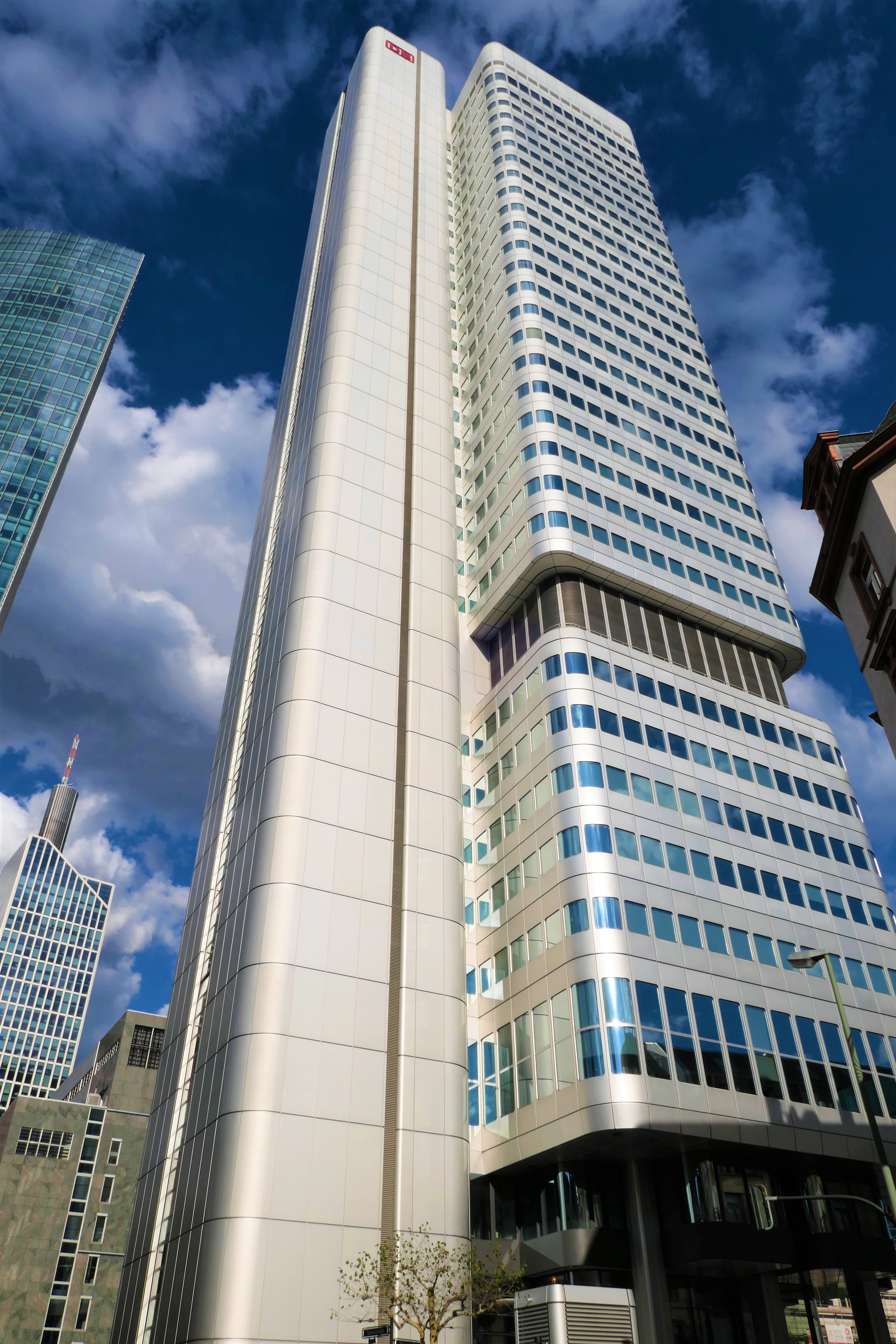 Silberturm